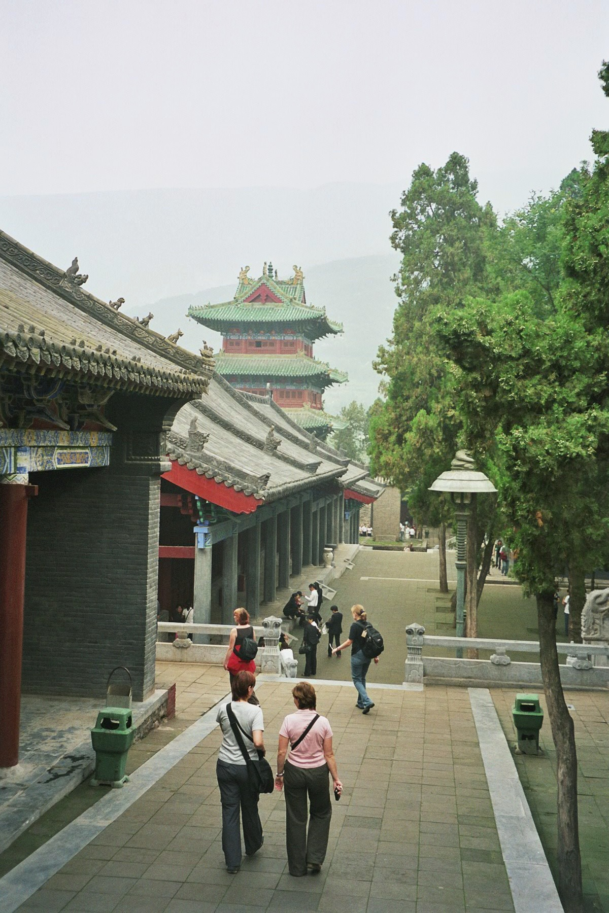 Shaolin Monastery, in september 2006.